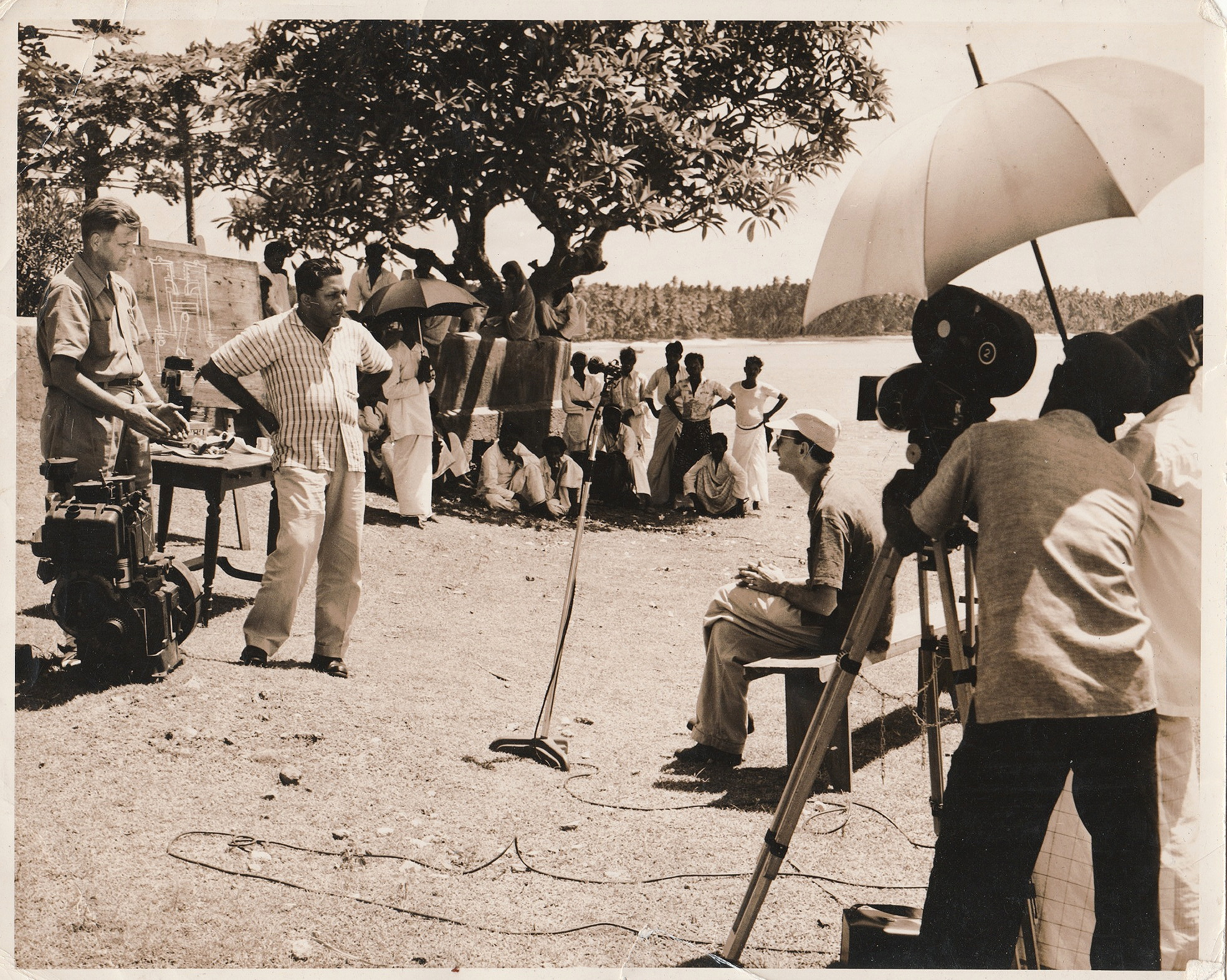 ER Kvaran being filmed, Sri Lanka, Ca. 1956